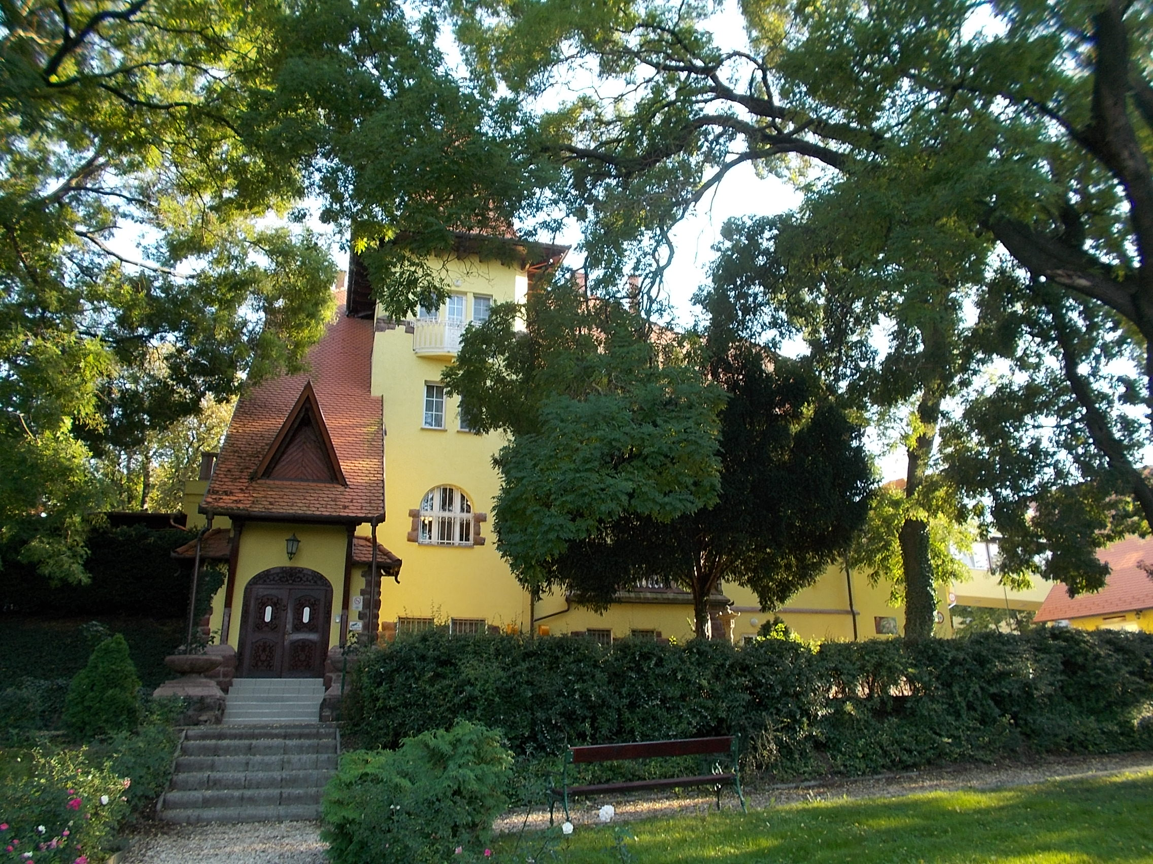 Art Nouveau mansion remodelled to four star hotel. Built in 1926 by Pál Vágó. First owner Imre Fried (local magnat). - Malom Street, Simontornya, Tolna County, Hungary.